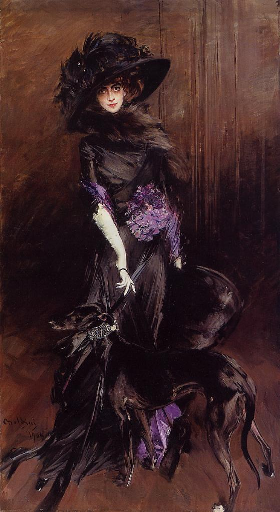 Luisa Casati (1881-1957) with a greyhound